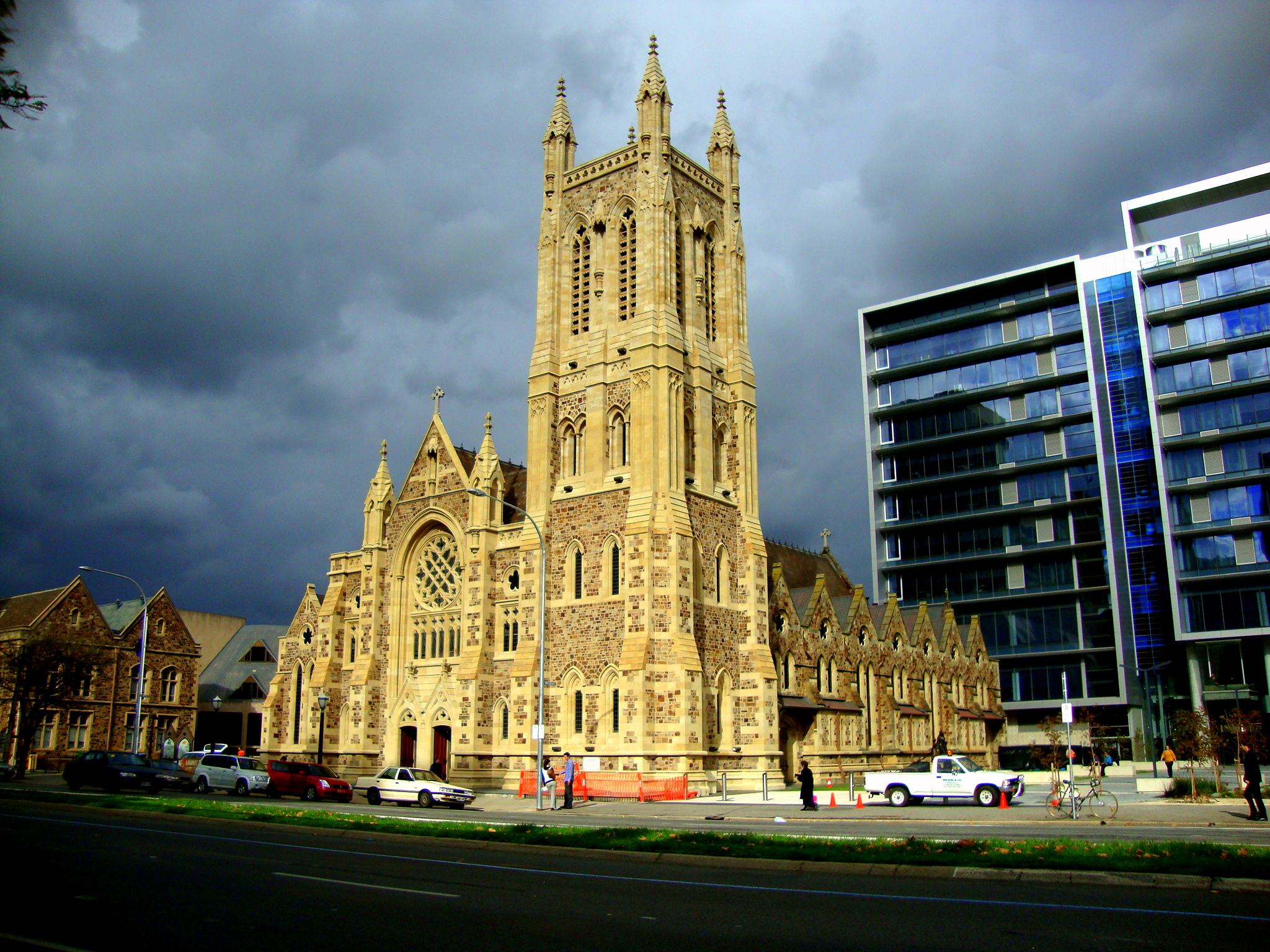 St Francis Xavier`s Cathedral, Victoria Square, Adelaide